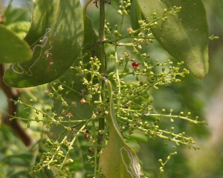 Peelu, Meswak toothpaste plant, Saltbush, Chhota Peelu, Jhak, Kharjal, Jal, Dhalu, Sara or Piludi Salvadora persica in Krishna Wildlife Sanctuary, Andhra Pradesh, India.